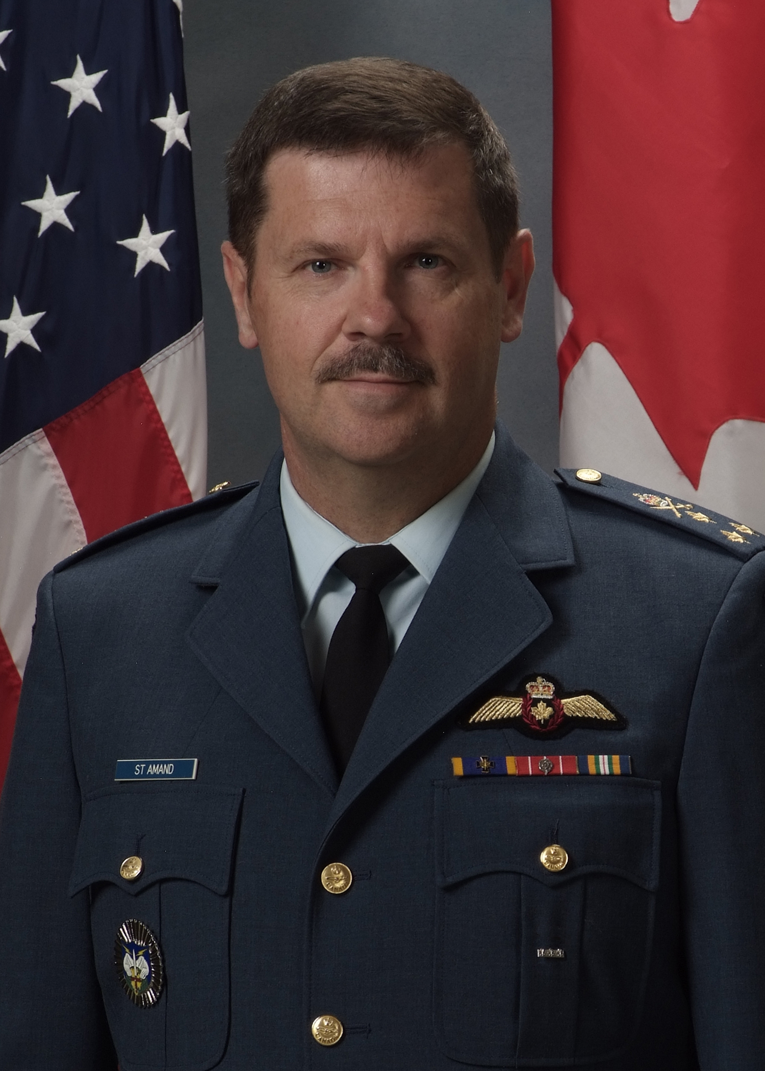 Lieutenant-General Pierre St-Amand RCAF at Colorado Springs